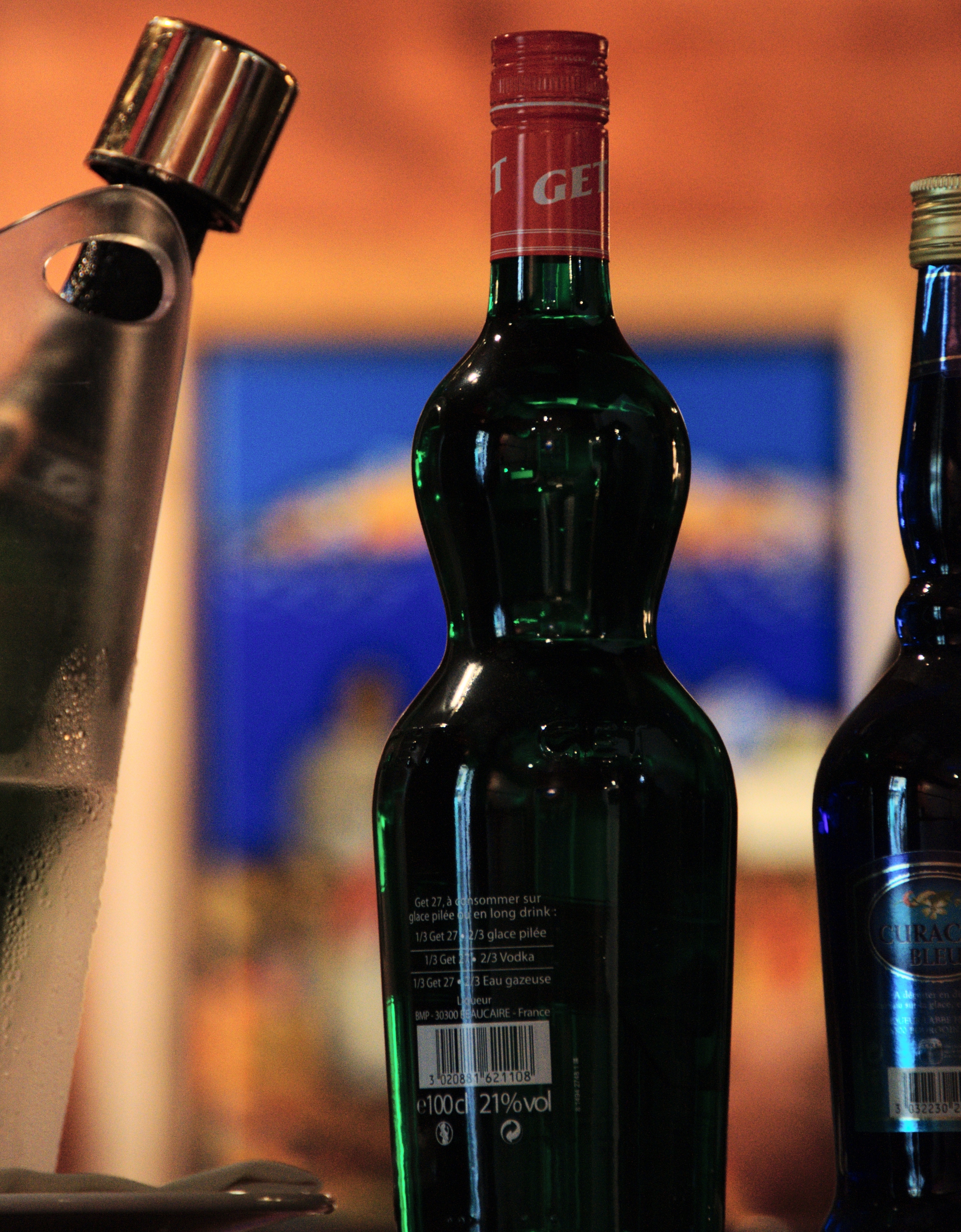 Bottle of in Al Dente 10, Rue Edmond Rostand 13006 Marseille, France